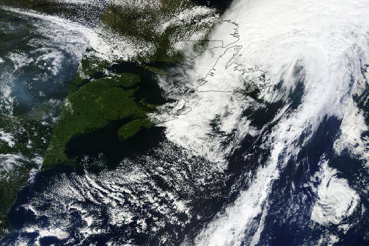 Satellite image of Tropical Storm Leslie (previously a hurricane) when it landed in Newfoudland on Septembrer 11, 2012, while transitioning to post-tropical.